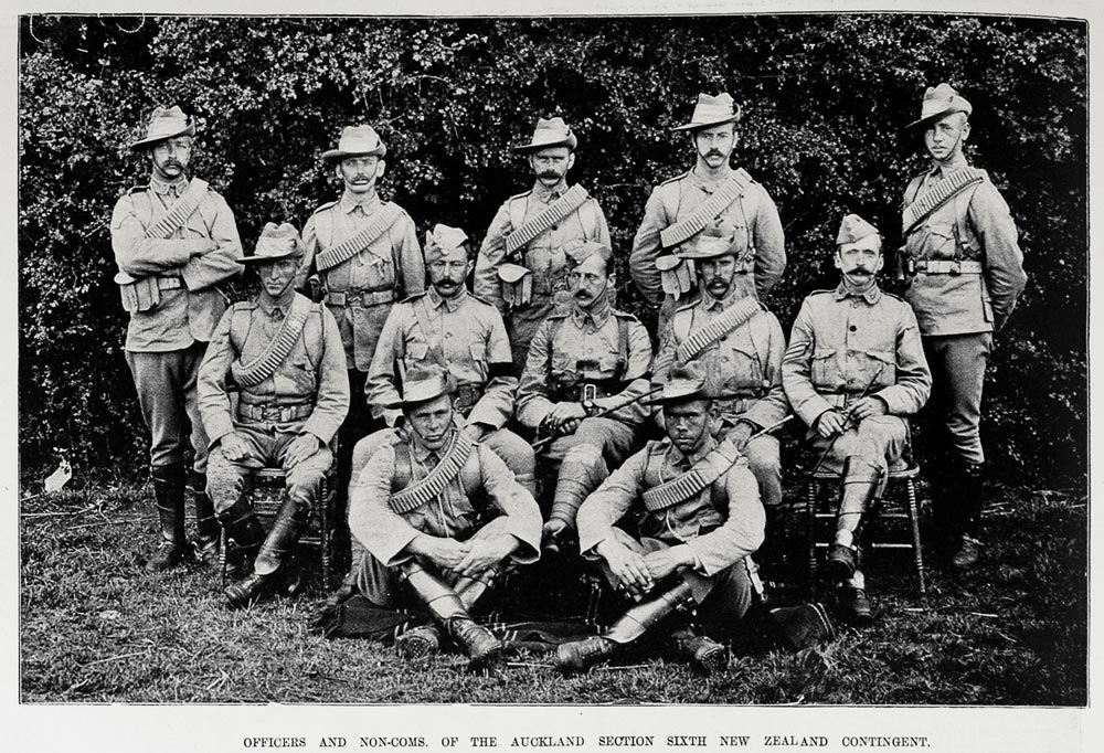 Officers and Non-Commissioned Officers of the Auckland section of the Sixth New Zealand Contingent Top Row -- Sergeant Chappe-Hall, Corporal White, Corporal Ashworth, Corporal Dave Gallaher, Sergeant Banks Middle Row -- Sergeant Drake, Lient. Sykes, Captain Markham, Sergeant Major Johns, Sergeant Cox. Front Row -- Corporal O'Neil, Lance-Corporal Little.